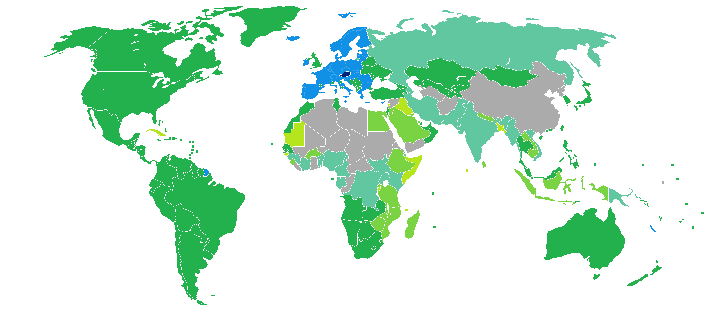 Visa requirements for Austrian citizens Austria Freedom of movement Visa not required Visa on arrival eVisa Visa available both on arrival or online Visa required prior to arrival